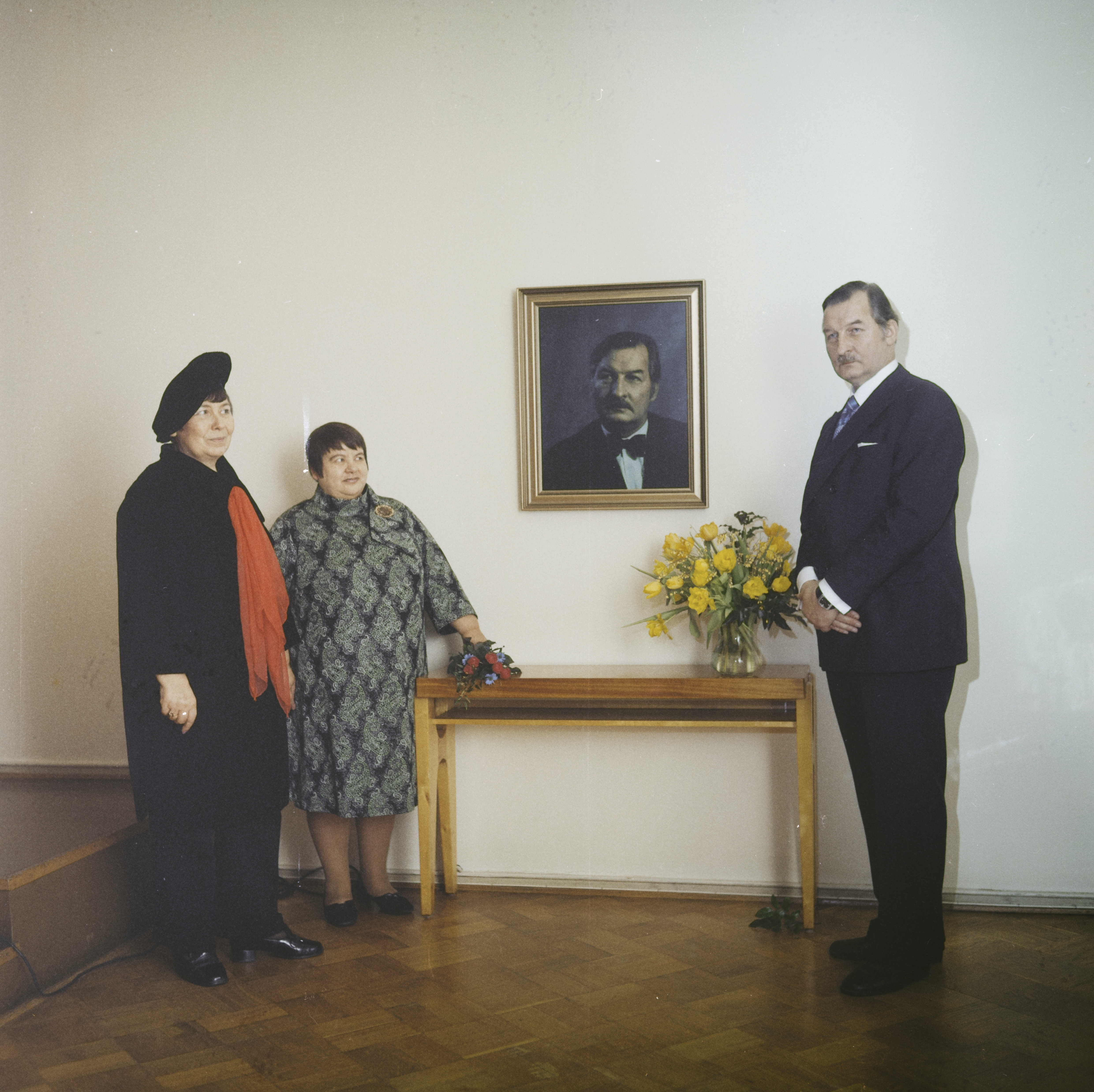 Photograph of the Finnish physician and professor of x-ray diagnostics Pekka Soila (1923–1995) with photographers Margit Ekman and Eila Marjala from Kuvasiskot studio.